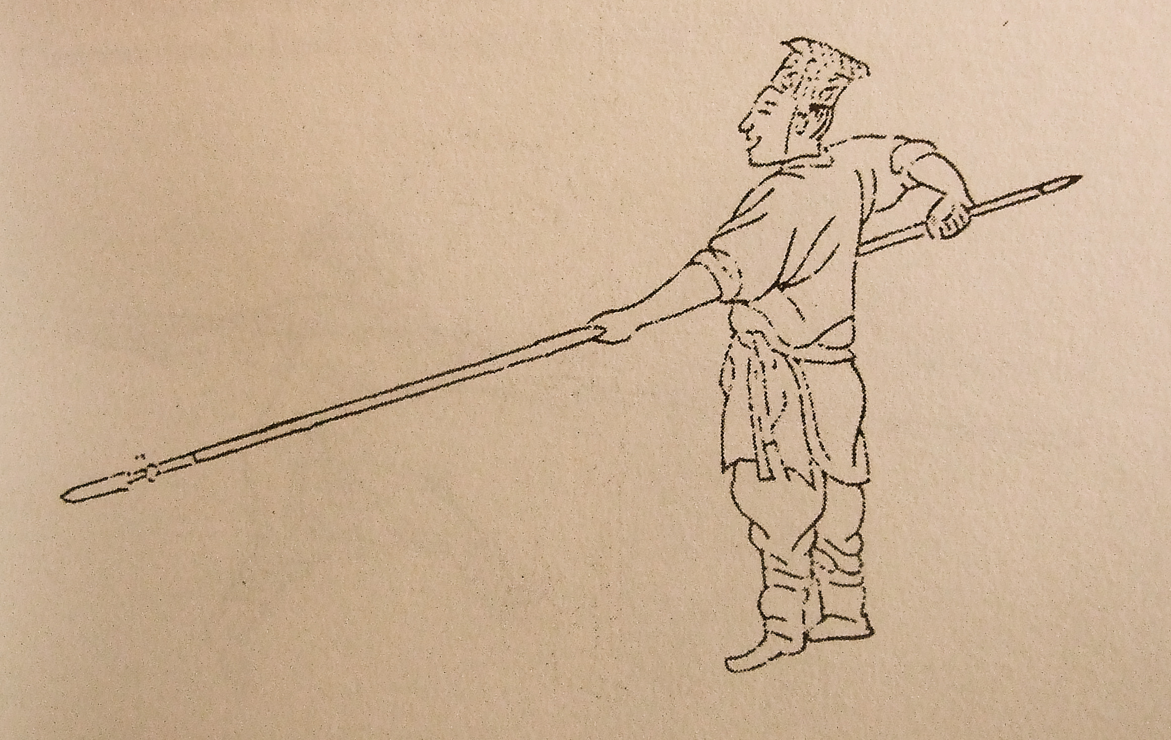 Jangchang illustration from the Muyedobotongji a 18th century Korean martial arts manual